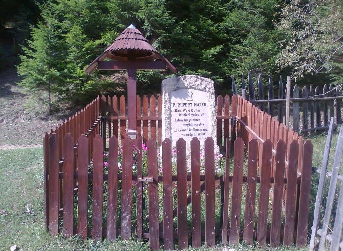 Memorial of Rupert Mayer SJ (1867-1945) in Kostelek.